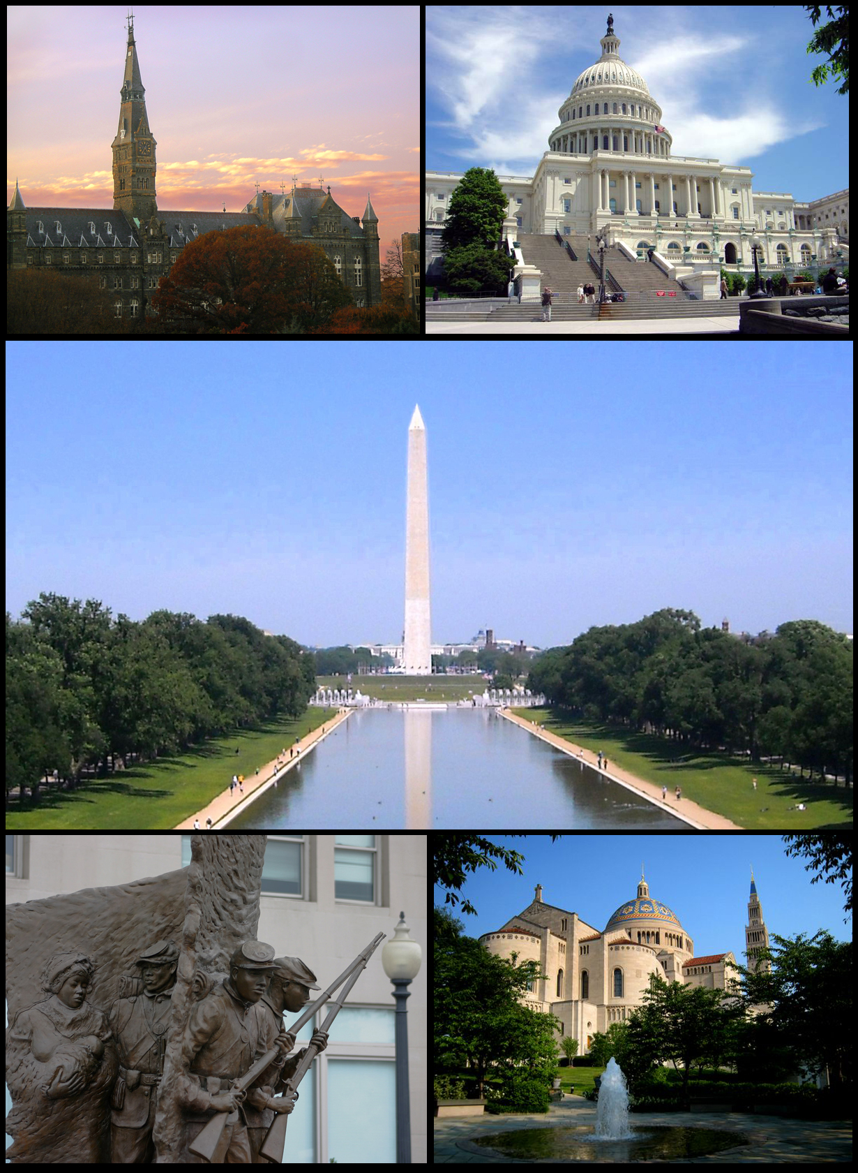 Montage of Washington, D.C. landmarks